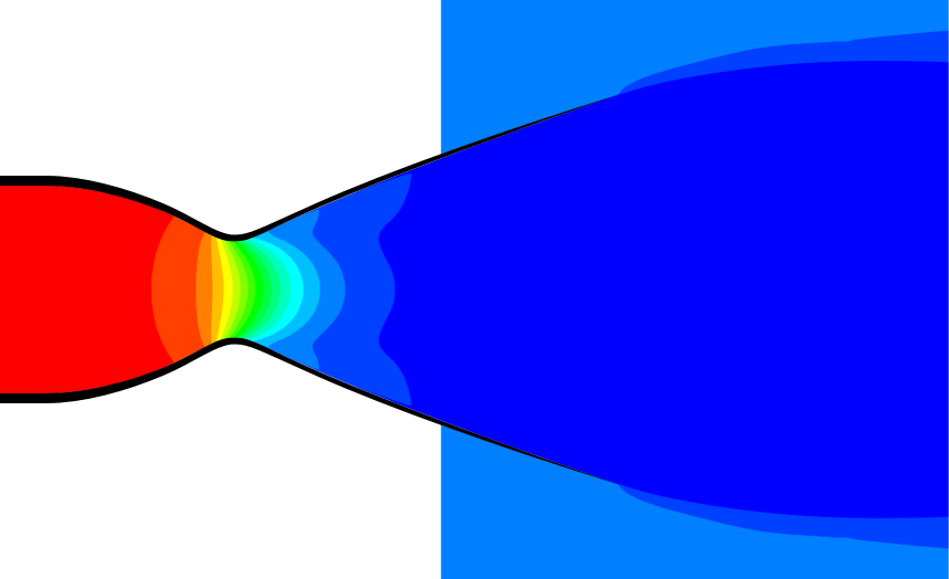 density flow of a roket nozzle